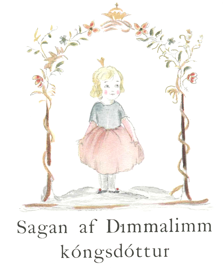 Picture from the book "Sagan af Dimmalimm" from 1942